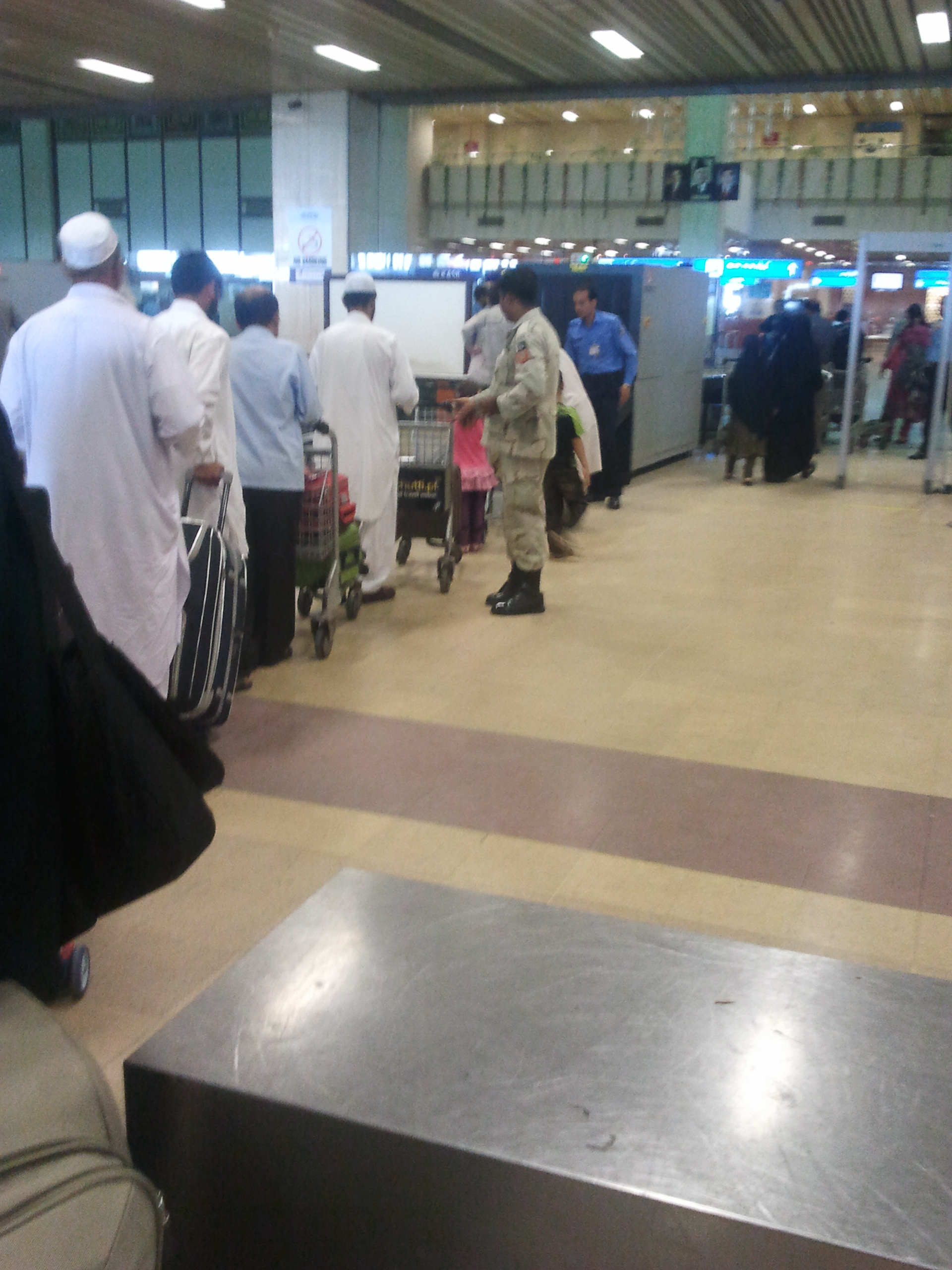 Anf pesonell checking passengers